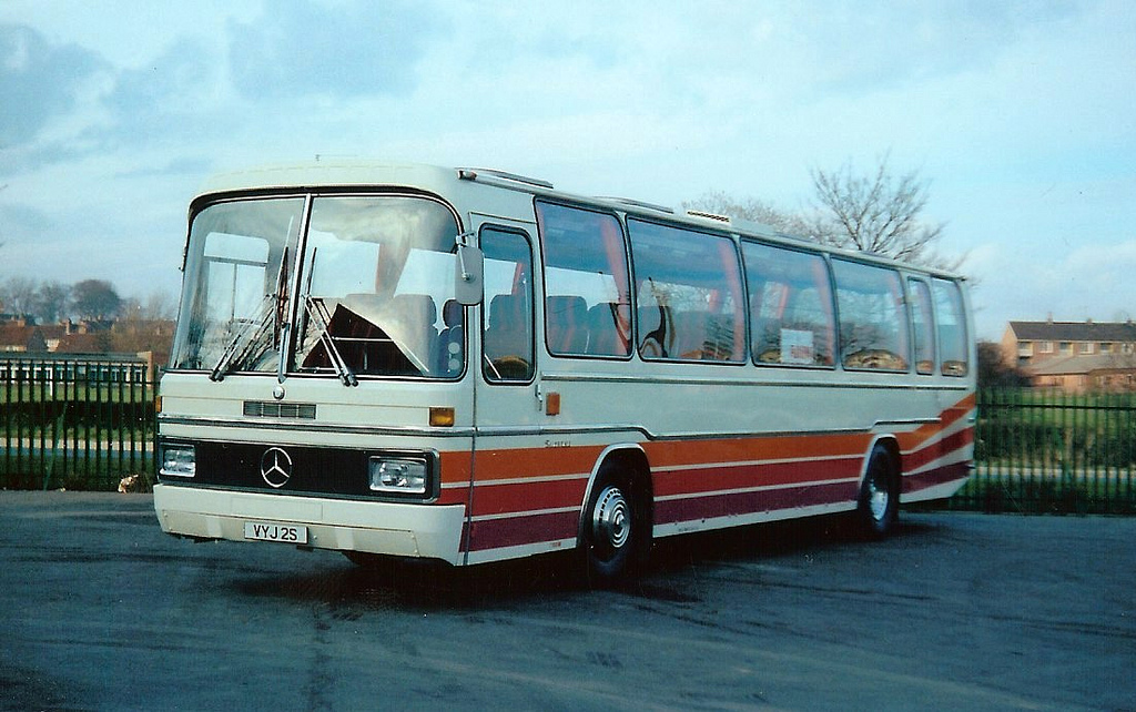 VYJ 2S,Painted in American Express livery,photographed @ Plaxtons.